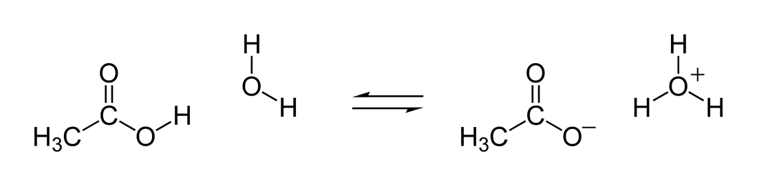 Scheme of the dissociation of acetic acid to acetate, with structural formulae. A water molecule is protonated to form a hydronium ion in the process.